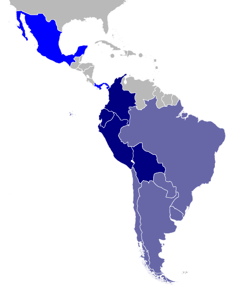 Andean Community of Nations membership.